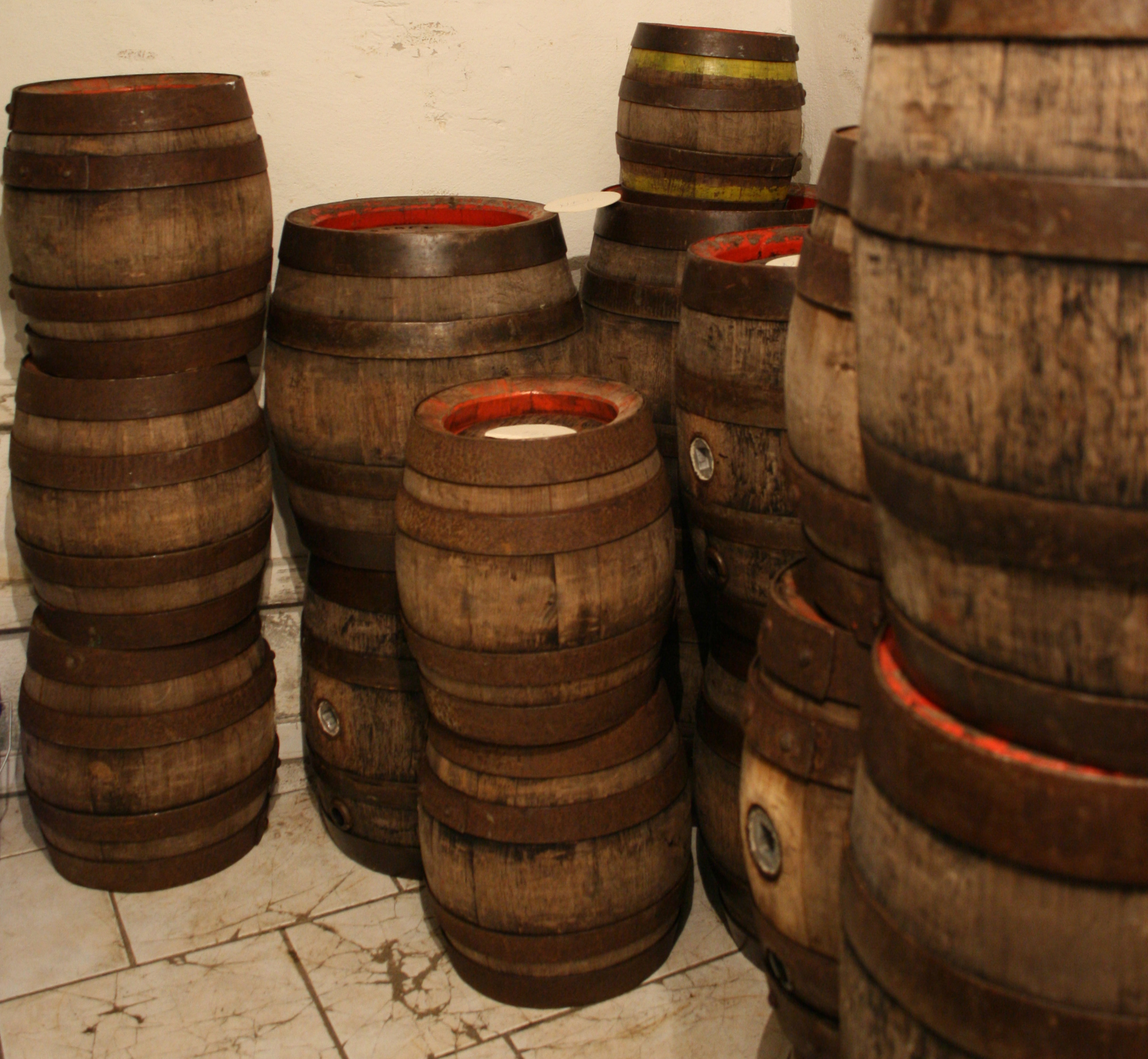 Wooden beer-barrels in Haus Töller, Cologne, Germany